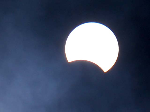 A photograph of the July 2009 partial solar eclipse seen from Quezon City, Philippines. Taken at 10am local time. Image was cropped to focus on the sun and the resolution was reduced. No other changes were made to the image.